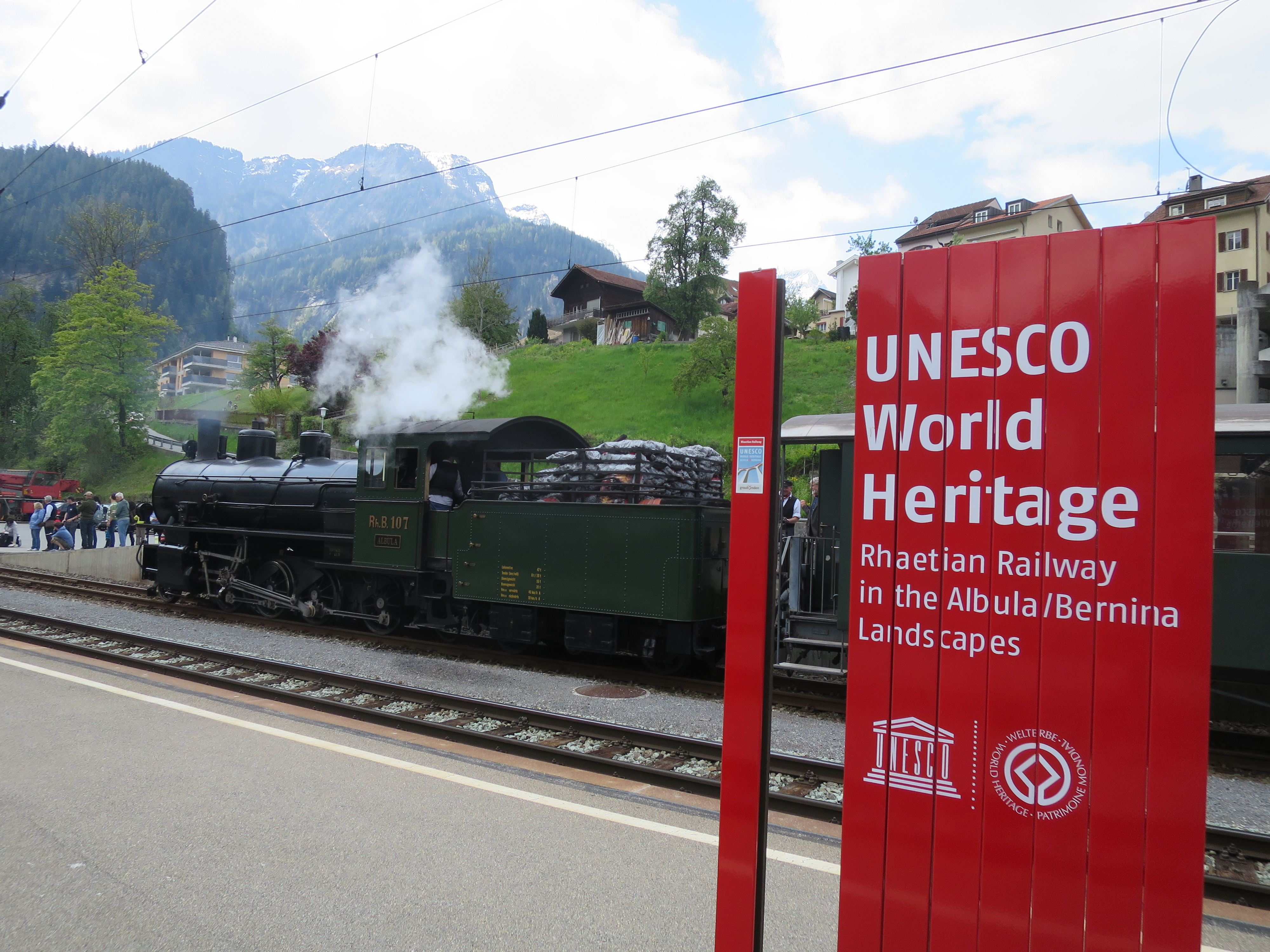 Steam engine "Albula" in Thusis Station